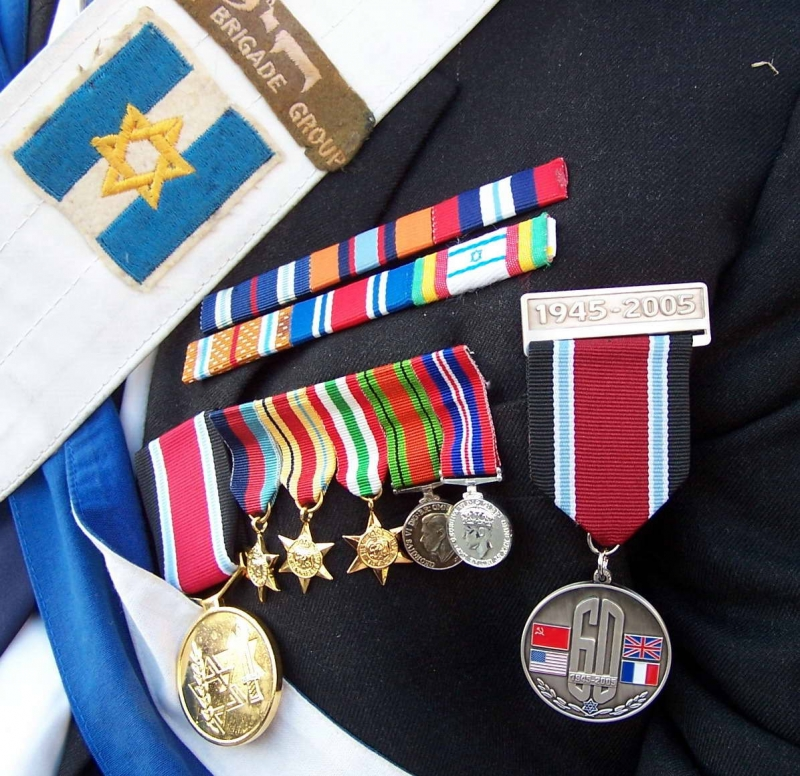 Israeli veteran with medals and ribbons (including one British medal with head of George VI).